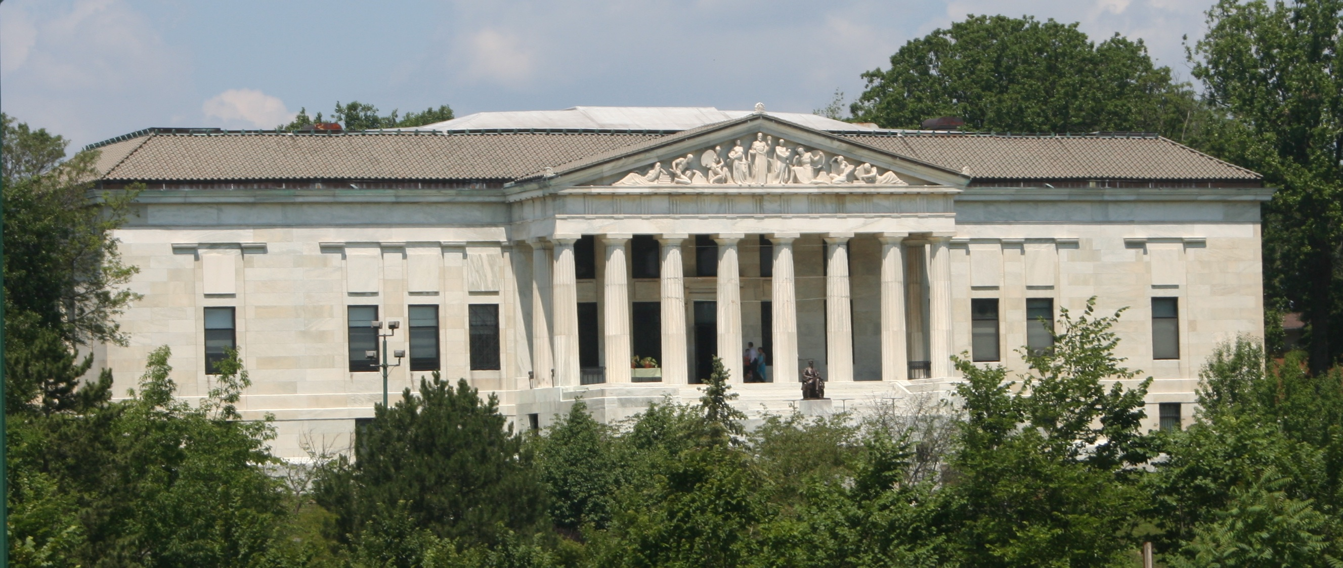 The Buffalo and Erie County Historical Society building, in Buffalo, New York. It was built to be the New York State Pavilion for the 1901 Pan-American Exposition, and is the only permanent building from the expo. Designed by architect George Cary, it originally had a blank pediment. The Vermont white marble pedimental sculpture, based on that of the Parthenon, was created by sculptor Edmond Amateis and added to the building in 1930.[1] The seated Abraham Lincoln statue in front of the portico is by Charles Henry Niehaus.